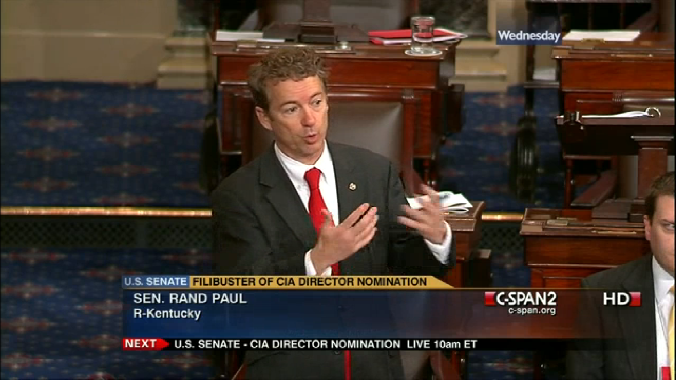 Rand Paul speaking during his 13-hour long filibuster.